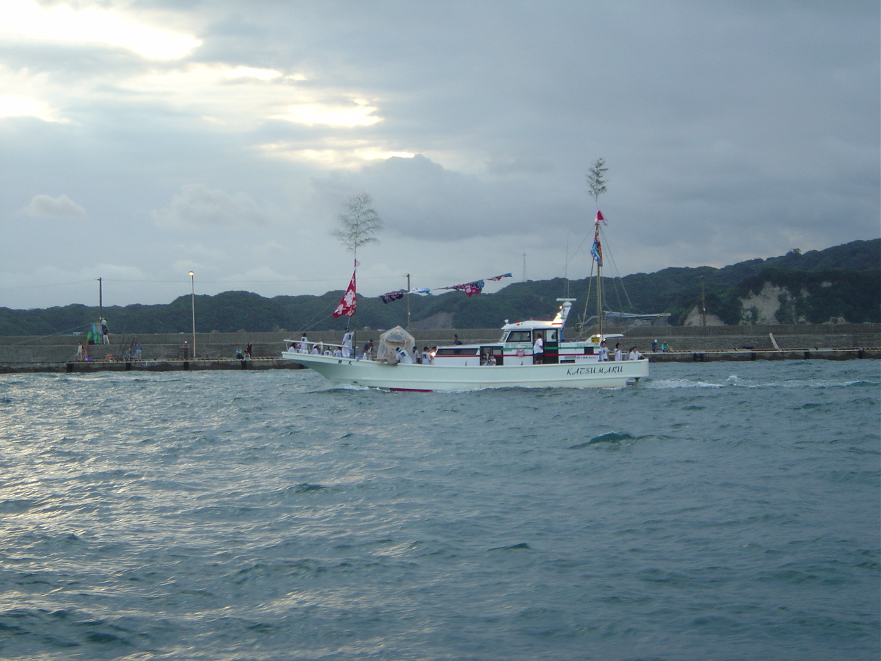 Fishing boat that puts portable shrine.(Katsuura Autumn Festival)